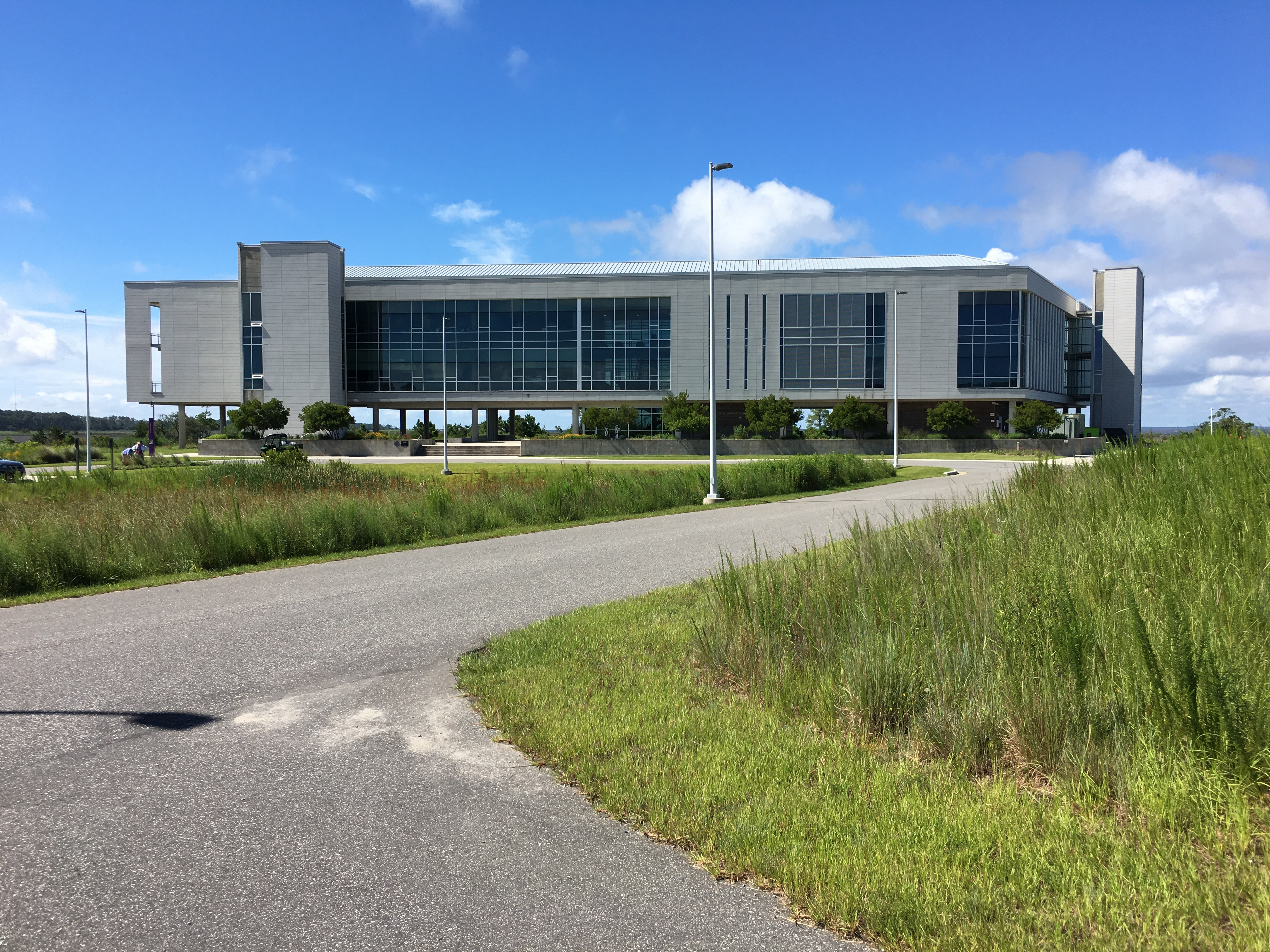 The University of North Carolina Coastal Studies Institute in Wanchase, Roanoke Island, North Carolina